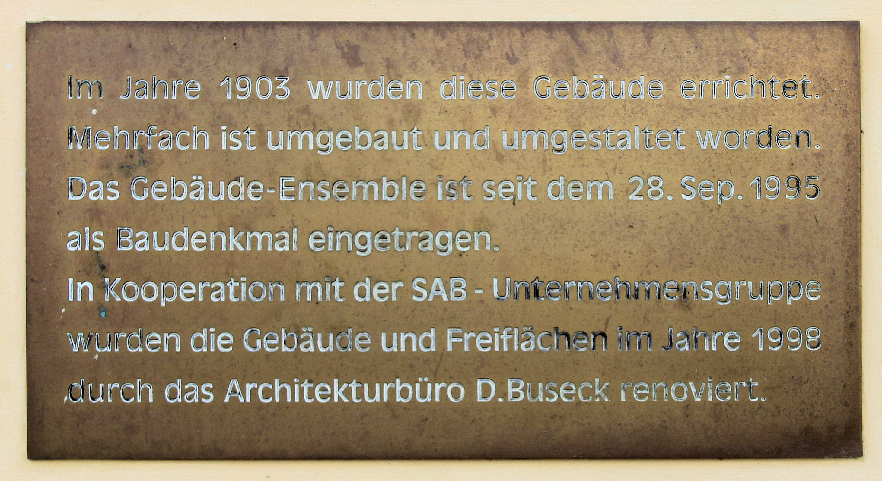 Memorial plaque, Baudenkmal Vorbergstraße, Vorbergstraße 10a, Berlin-Schöneberg, Germany Koordinate:52°29′21″N 13°21′17″E / 52.48917°N 13.35472°E